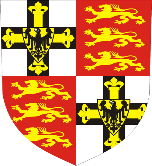 Teutonic Order - Coat of Arms of the Grandmaster Anno von Sangerhausen